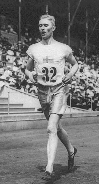 Goesta Lilliehoeoek #32 of Sweden in action during the running discipline of the Modern Pentathlon event at the 1912 Olympic Games in Stockholm, Sweden. Lilliehoeoek won the gold medal in this event.